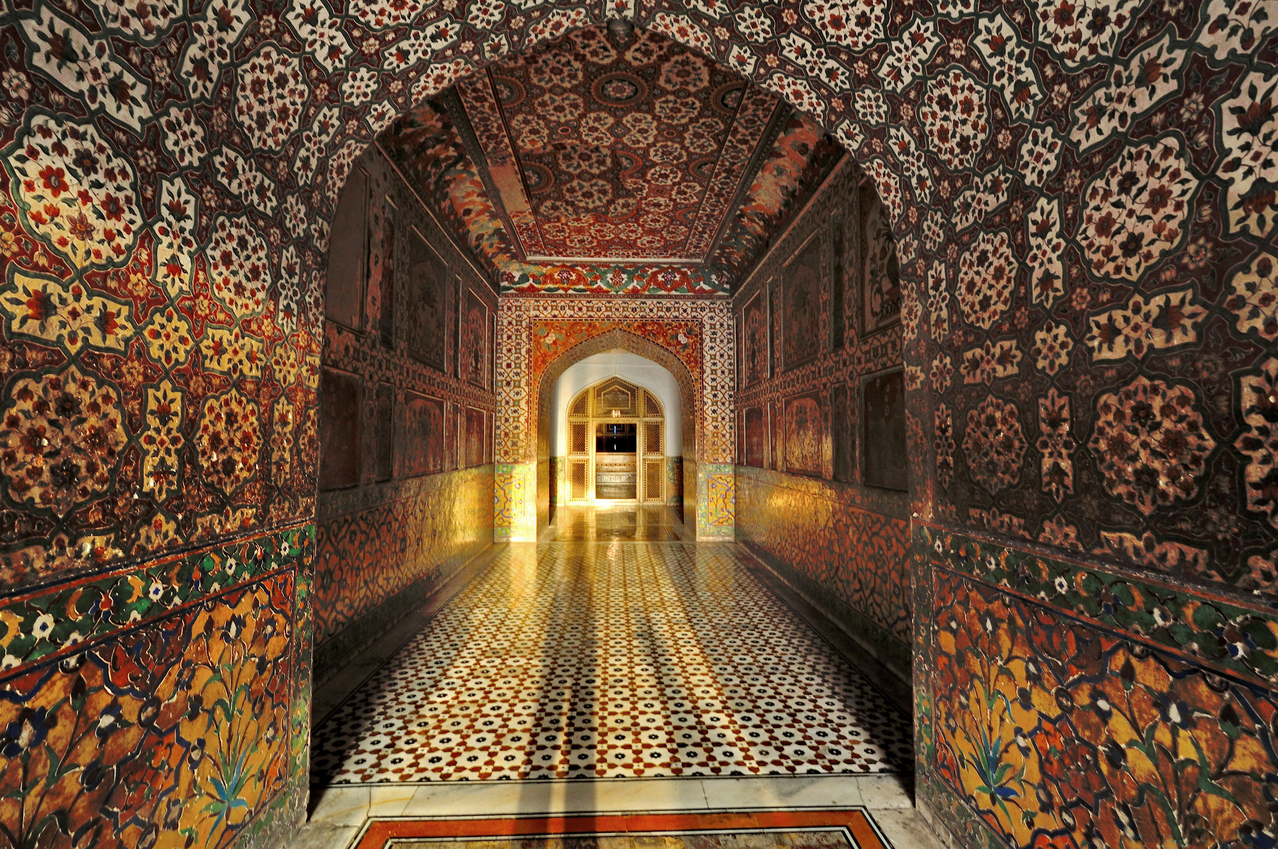 Jahangir’s Tomb and compound This is a photo of a monument in Pakistan identified as the PB-64